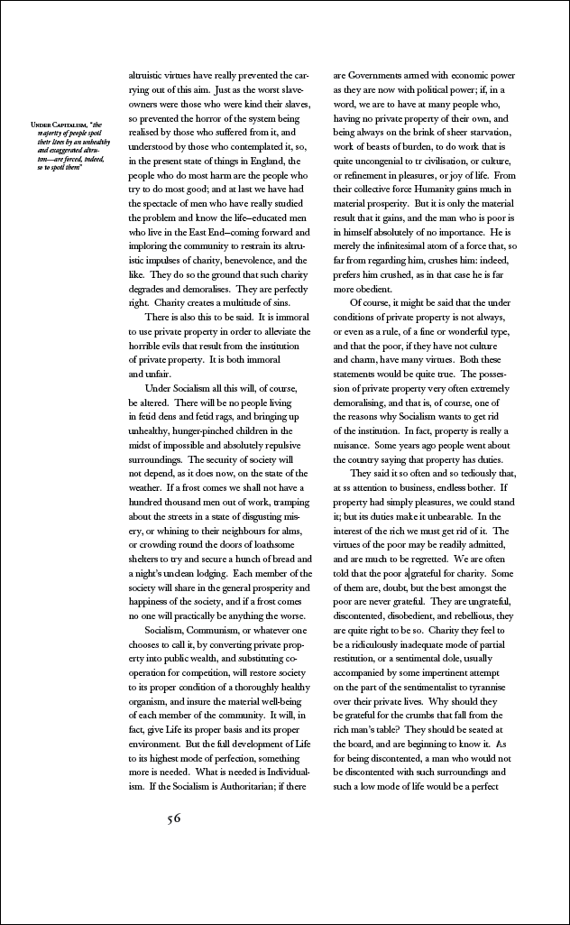 This is an example of a two column layout. The image is a mock up and does not represent an actual book. The body copy was taken from Oscar Wilde's Soul of Man Under Socialism which is in the public domain, and the caption is from the en.wikipedia article on the same title. This was designed in InDesign CS2. The body text is Berthold Baskerville Book 8/12, while the caption is Adobe Garamond Pro 6/7.